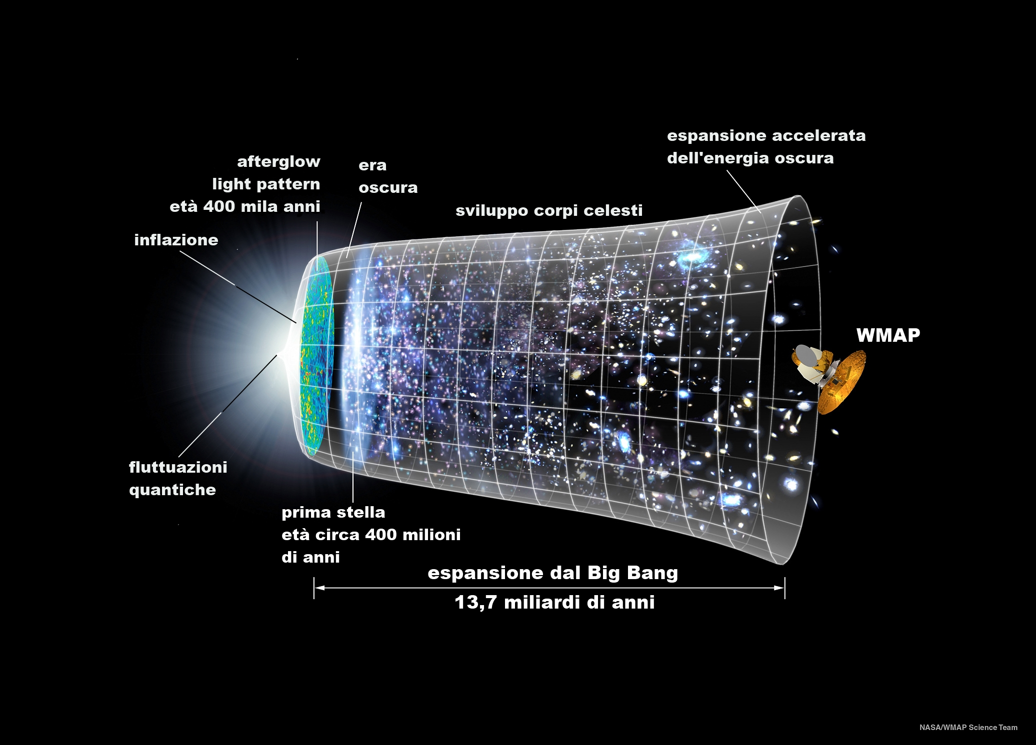 Time Line of the Universe Credit: NASA/WMAP Science Team [1]